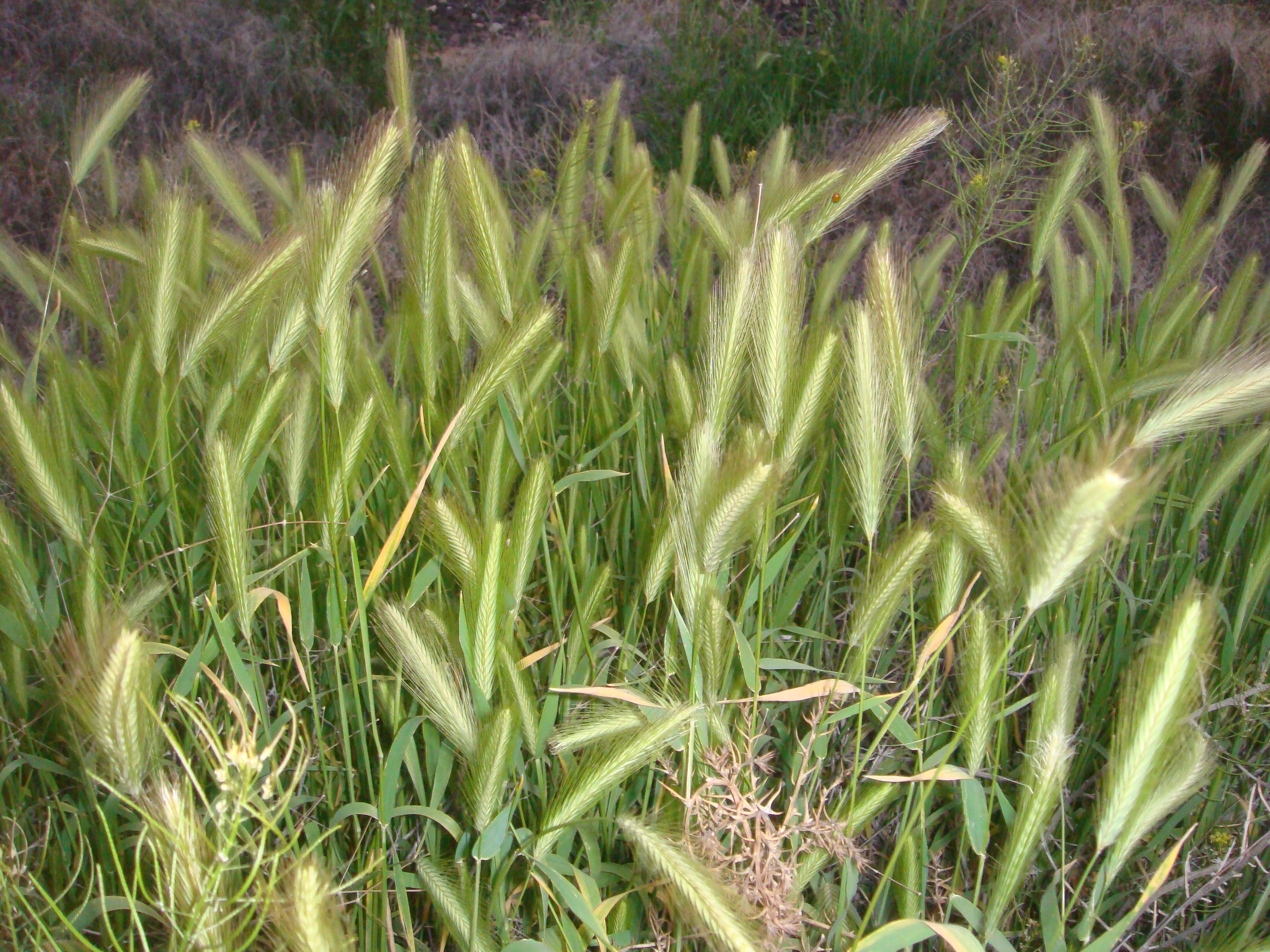 Hordeum murinum, 24 Mar 2008, along railroad tracks, Tempe, Arizona